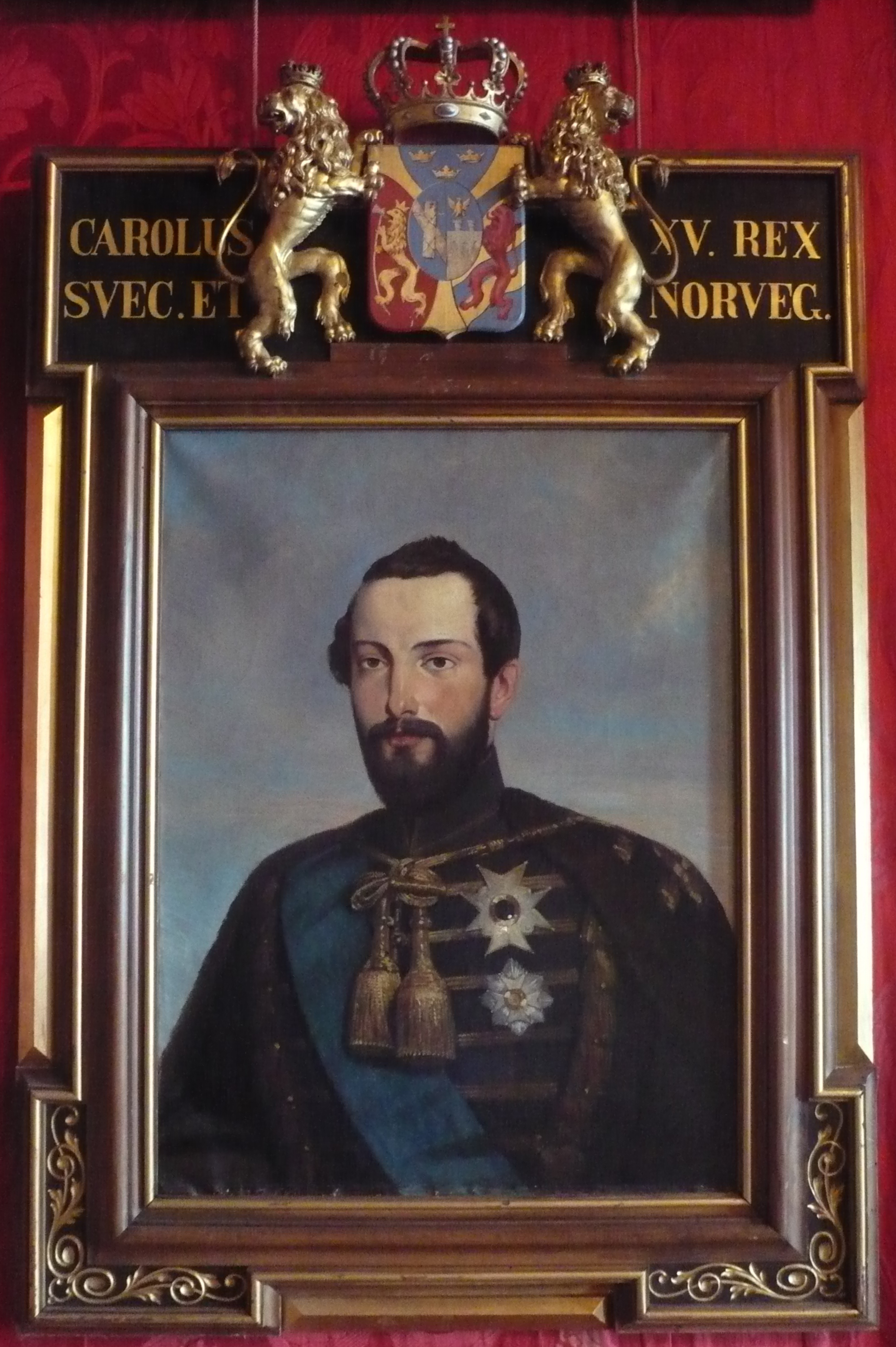 Painting of king Karl XV of Sweden and Norway. The paining is on the Miramare Castle in Trieste, Italy.